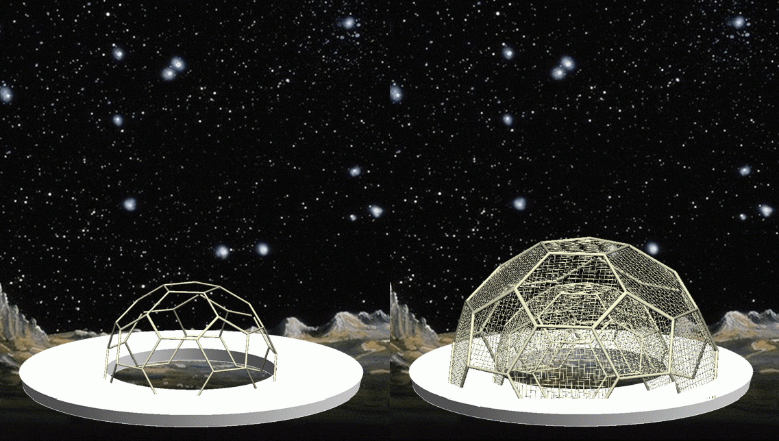 Space nanoarchitecture. One variant to create a human settlement on the Moon and other planets. Two hemispheres, whose structure is based on the scheme of buckminsterfullerene (C60), are sealed into the ring-ground of monolithic concrete. Cells of both domes—modules "five" and "six" with network, created in accordance with Sergey Makarov's "law compatibility of quasi-orthogonal tangentially undulated cable-stayed networks". Both domes from the inside are covered with transparent plastic that is impermeable to air and protects against radiation. Under the lower dome and between the domes there is normal air.